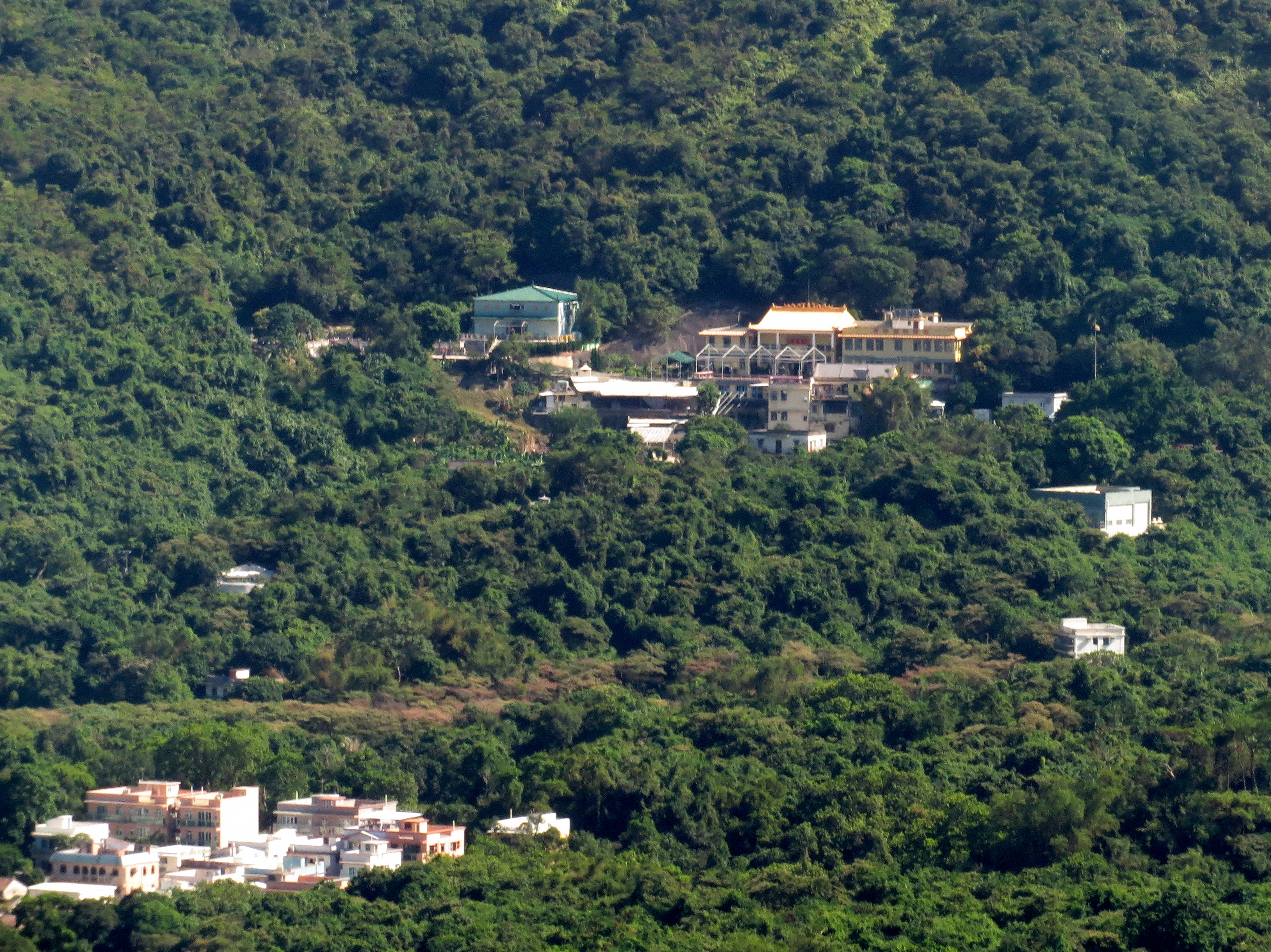 Lo Hon Monastery and San Keng (lower left), Tung Chung, New Territories, Hong Kong.